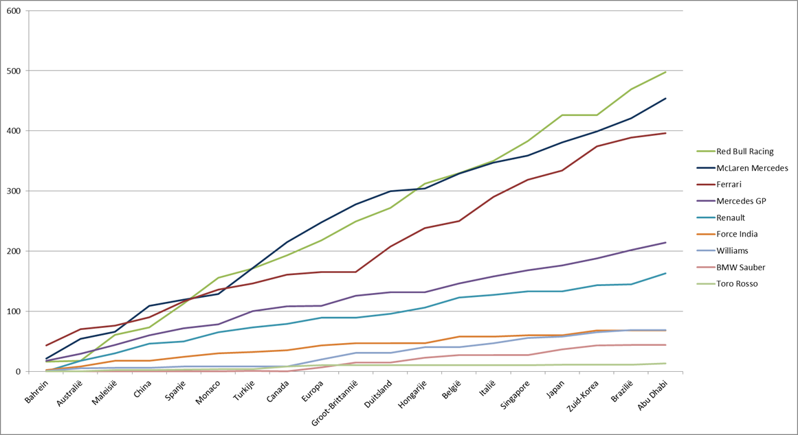 Graph showing the point progress of teams competing in the Formula 1 World Championship